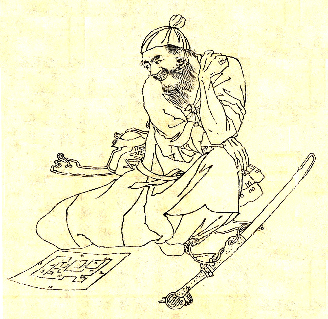 Ōno no Azumabito(大野東人) was a Japanese officer in Nara period.